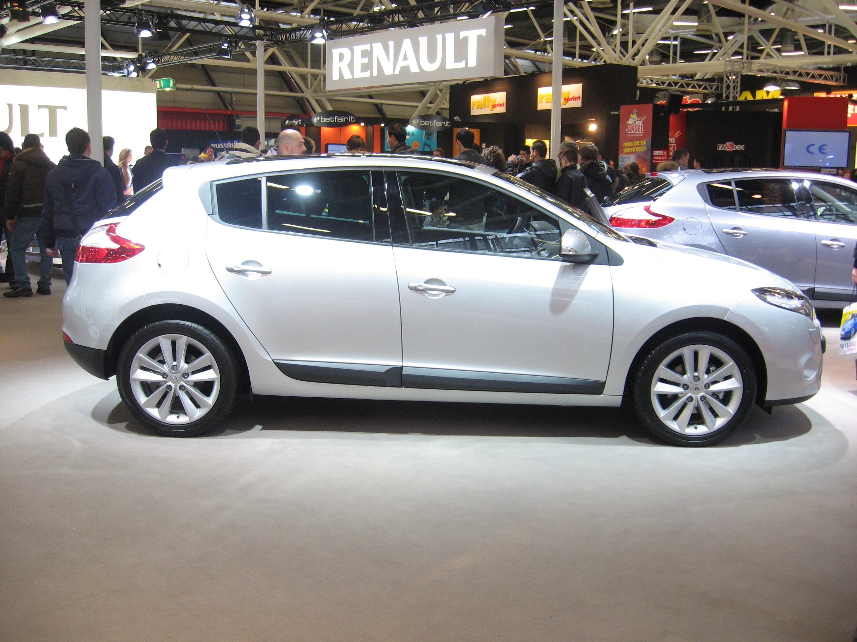 Subject: Renault Mégane Mk3 berlina Date:December 14th, 2008 Event: Bologna Motorshow 2008 Place/Country: Bologna, Italy I release all rights in the public domain.